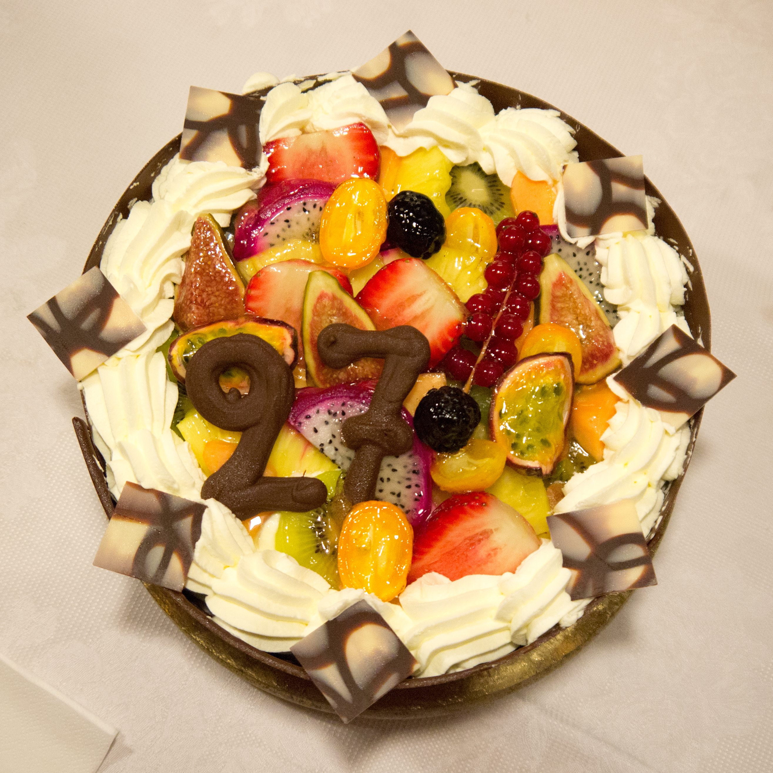 Mixed fruit birthday cake with 72 years old sign